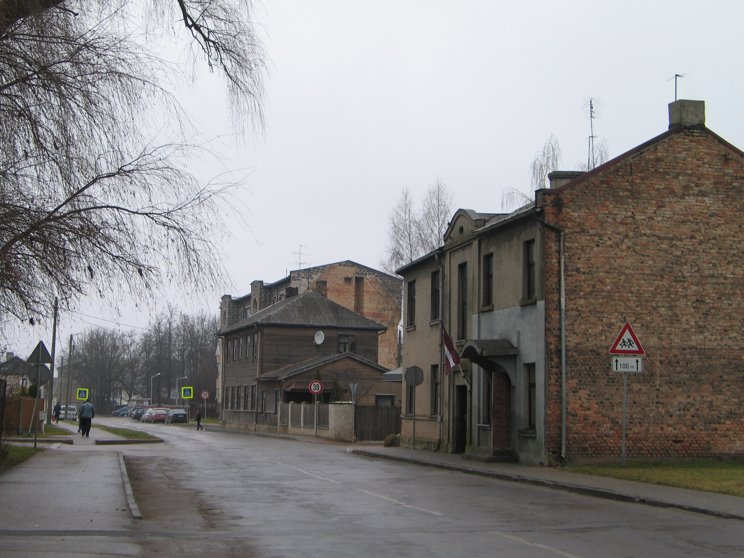 Pulkveža Brieža Street in Jelgava